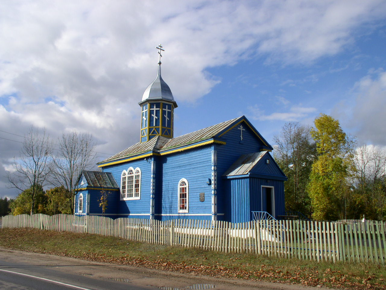 Church of Saint George. Vyalikiya Kruhovichy, Belarus